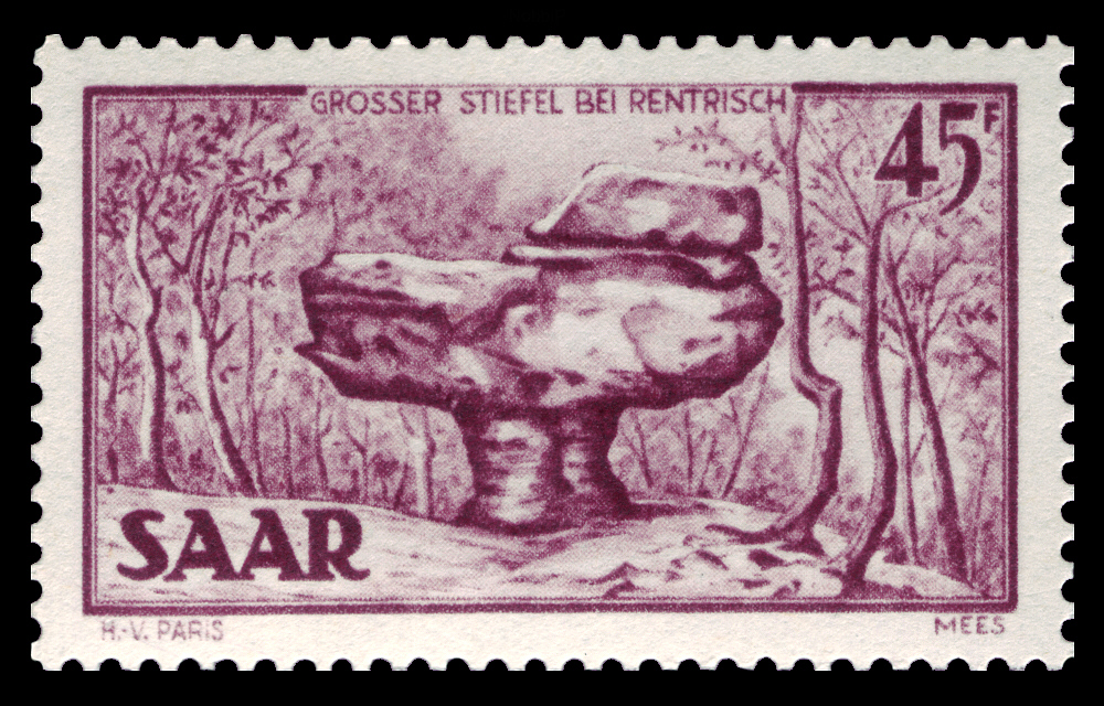 definitive stamp series pictures from industries, economy, agriculture and culture (also known as Saar IV)